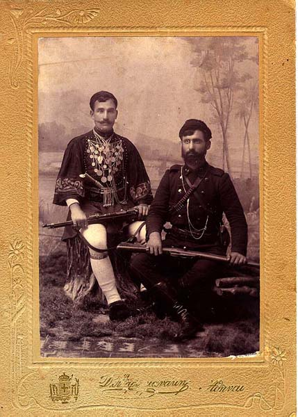 Greek andart captains from Crete Georgios Volanis, Ioаnnis Karavitis